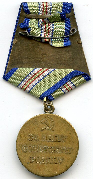 Reverse of the Soviet campaign medal "For Defence of the Caucasus"